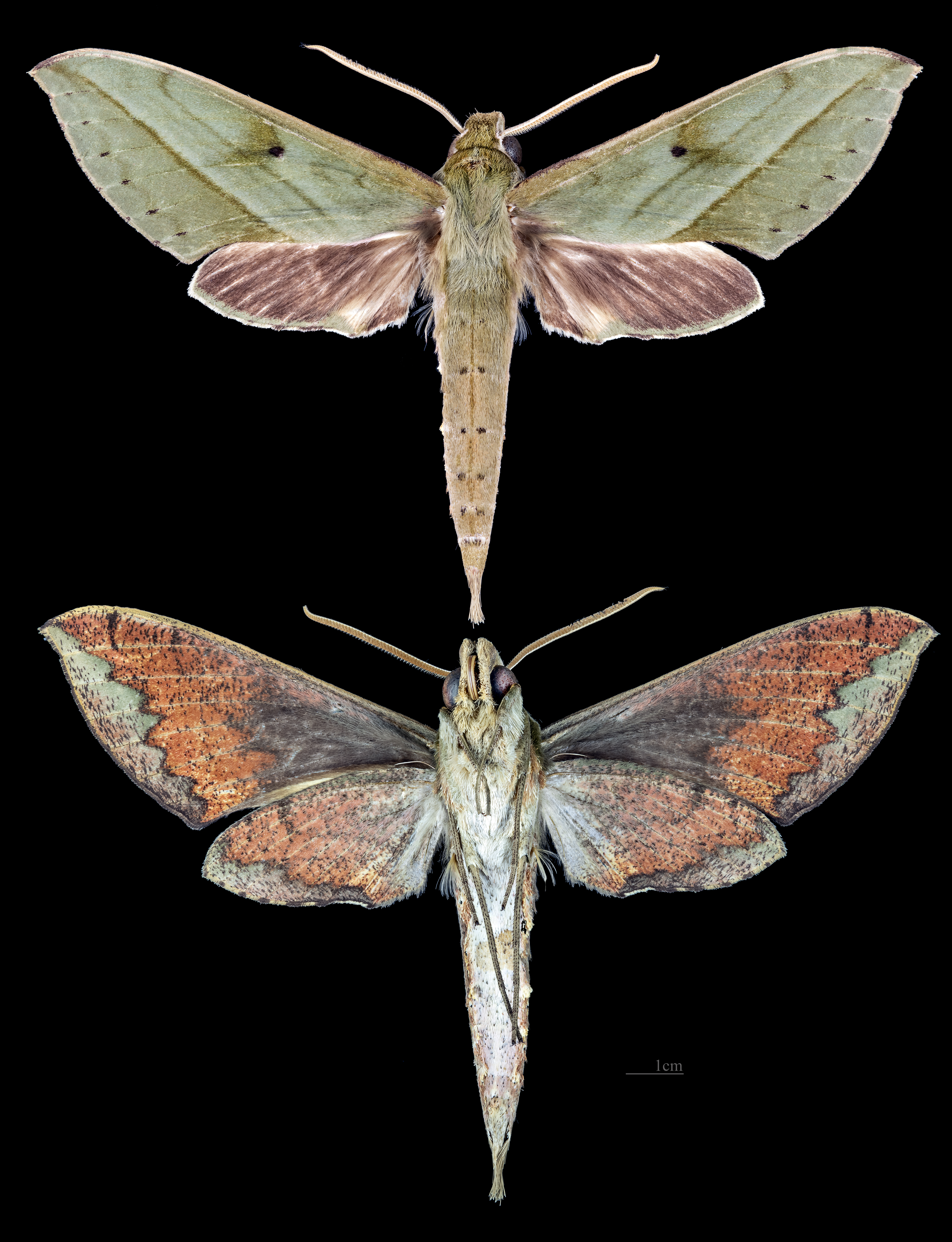 Xylophanes fassli - Two views of same specimen Collection of the Mathematician Laurent Schwartz